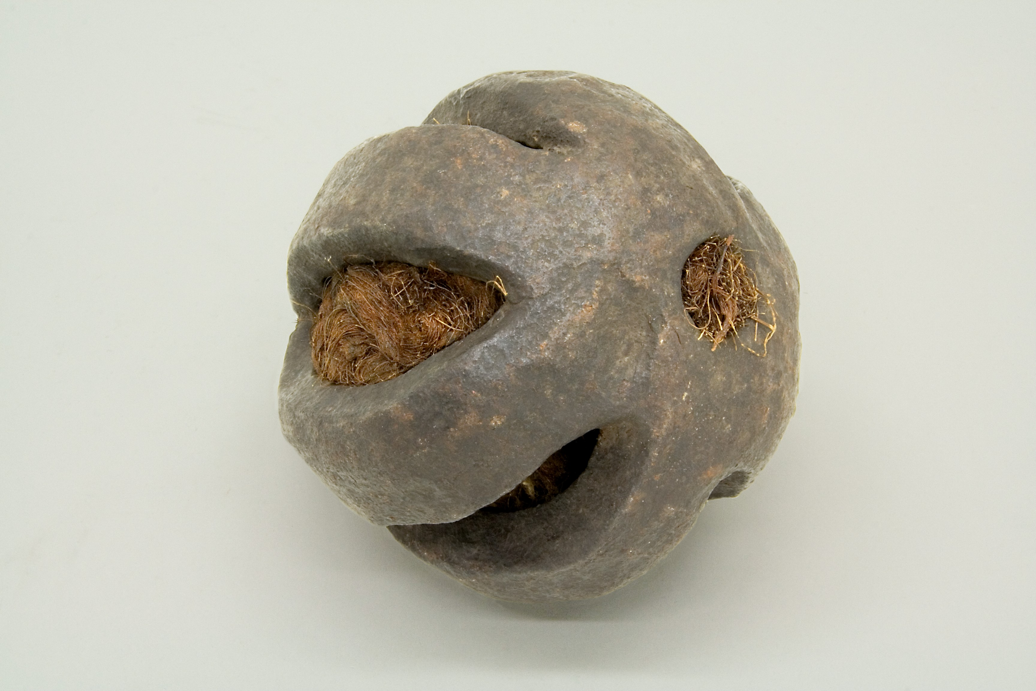 French; Cannon ball; Firearms-Cannon Balls